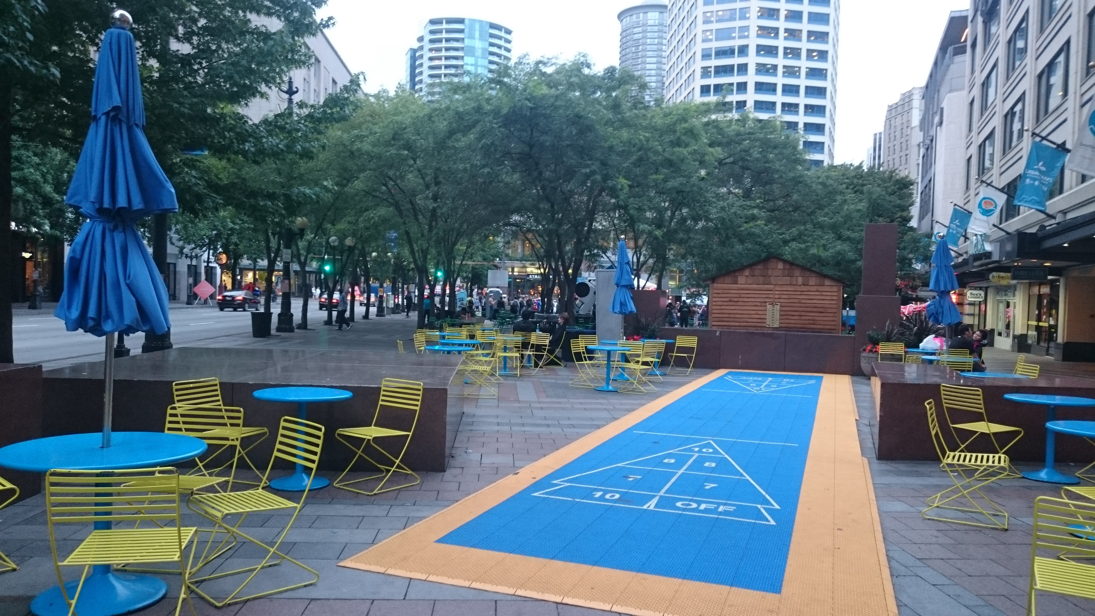 Seating area and shuffleboard court situated inside Weslake Park, Seattle.